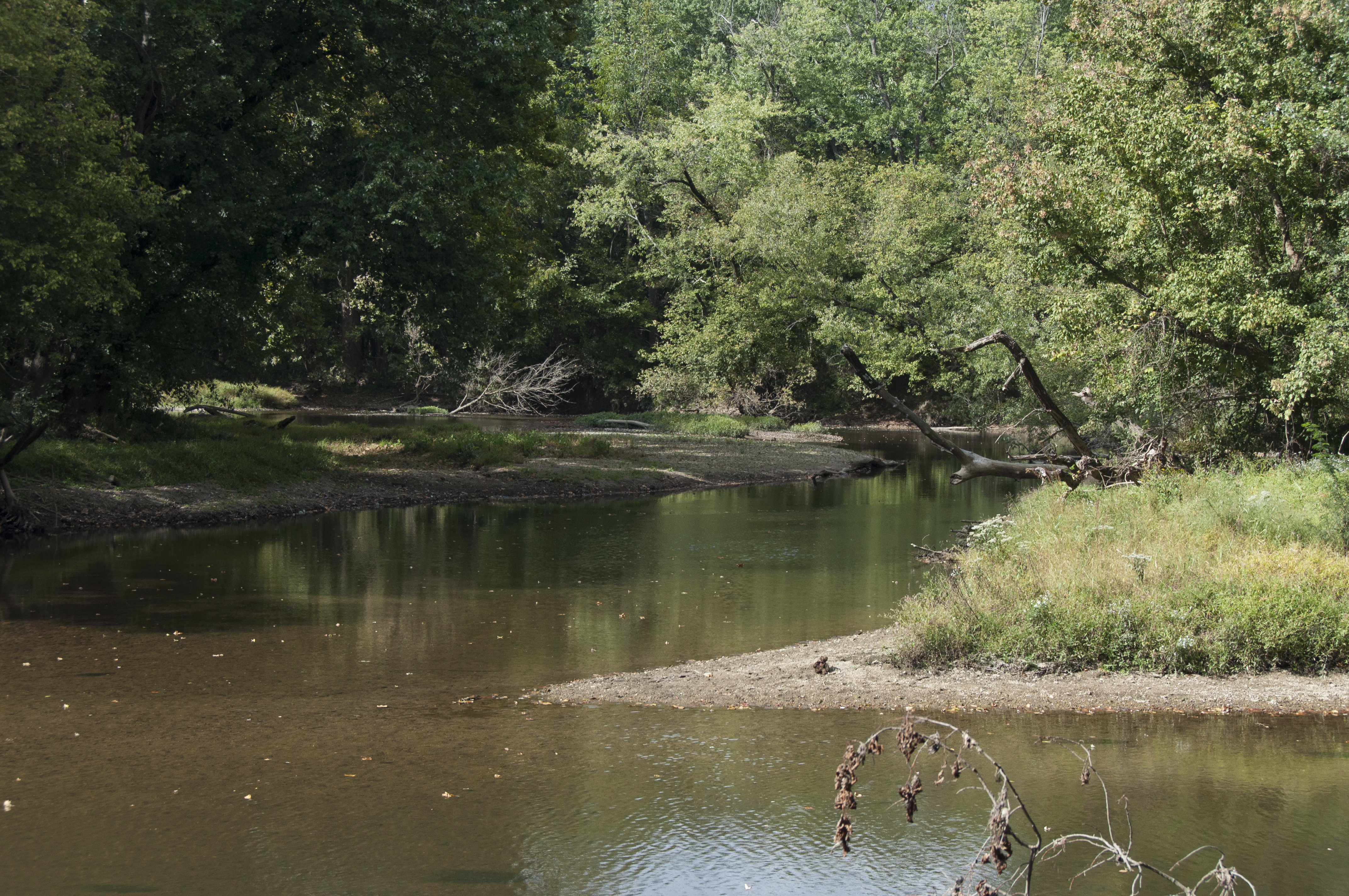 Alum Creek in late September where it joins Big Walnut Creek (after merging with Blacklick Creek) at Three Creeks Metro Parks (Columbus, Ohio). The water level of all creeks in the area were especially low (in the past year Alum Creek had been as high as 5.03ft where on the day I went it was 1.23ft.) allowing me to get into the Creeks in the area at points.